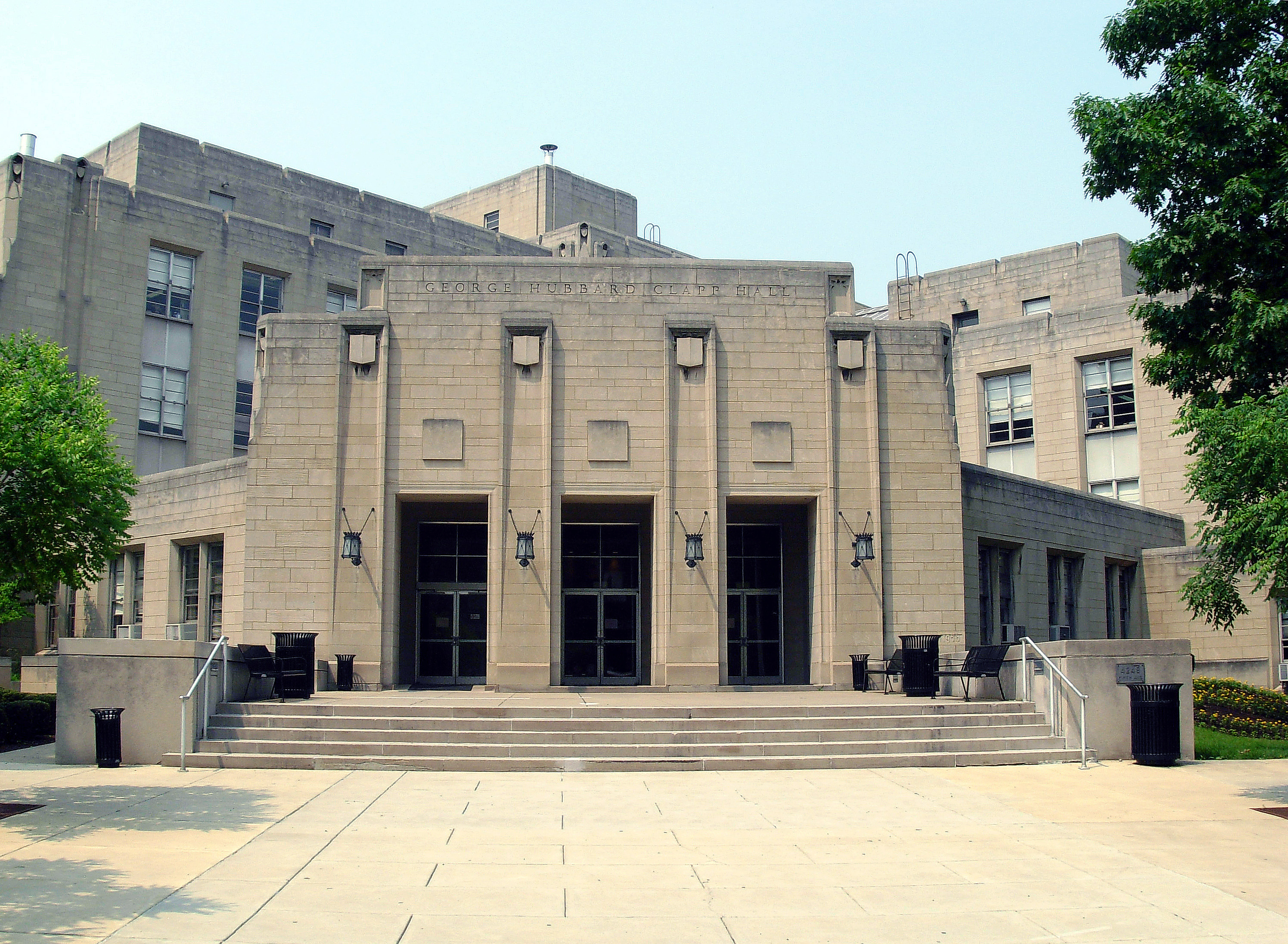 Clapp Hall at the University of Pittsburgh Photo by Piotrus (edited; see original at Image:Clapp Hall.JPG)